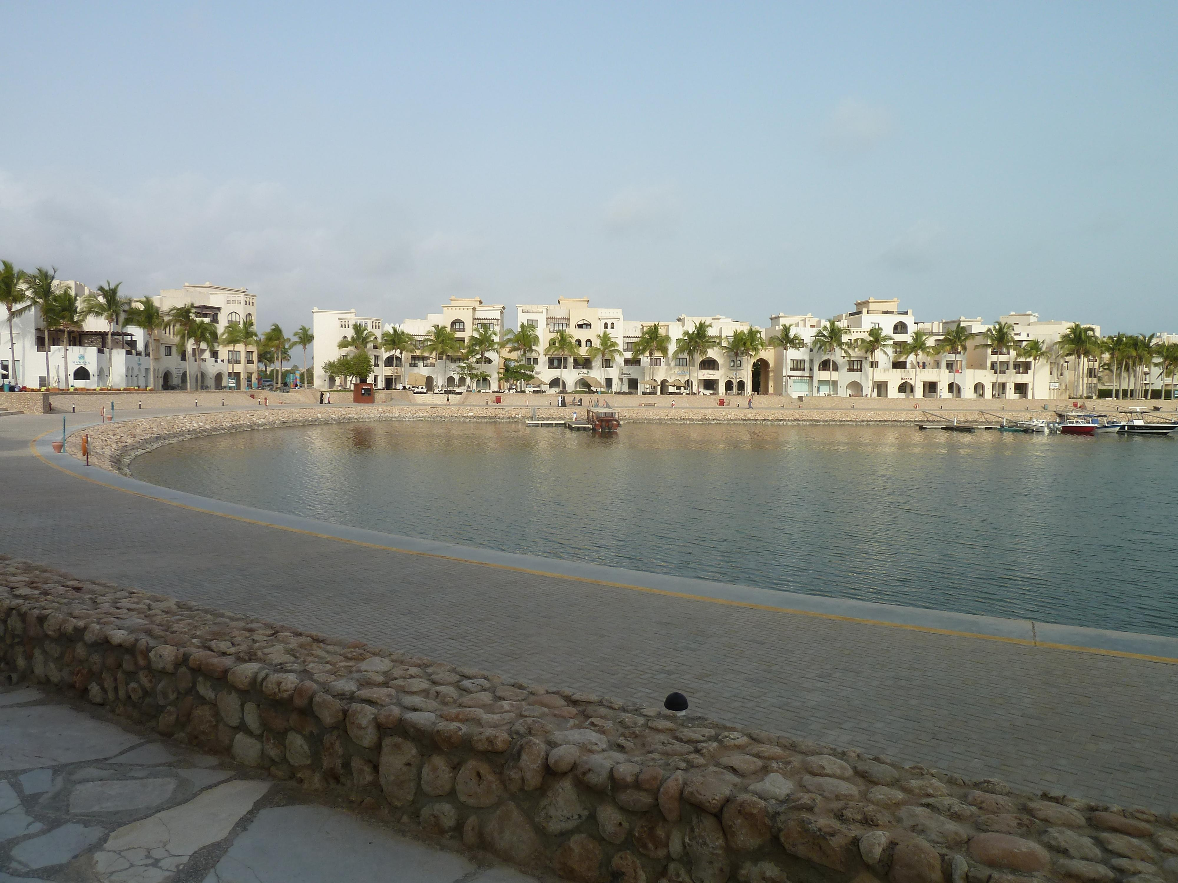 Harbour of Rotana resort